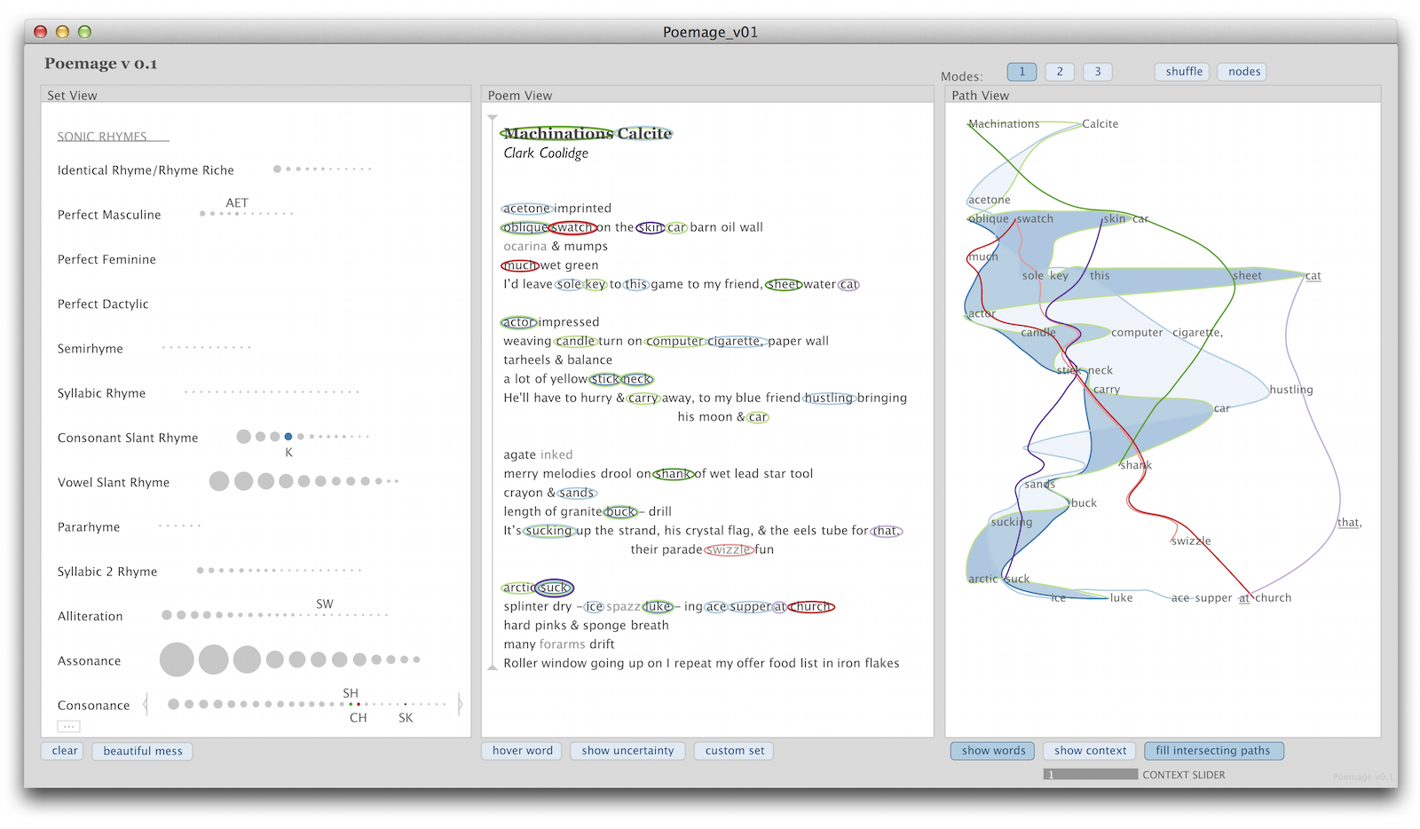 A screen cap of Poemage's interface.